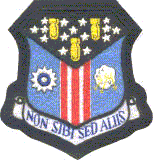 321st Bombardment Wing emblem. A copy of this emblem was down loaded from for use in my book “STRATEGIC AIR COMMAND An Organizational History” with the permission and approval of Marvin T. Broyhill, Webmaster.